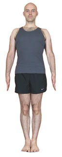 Tadasana (front) Yoga Pose